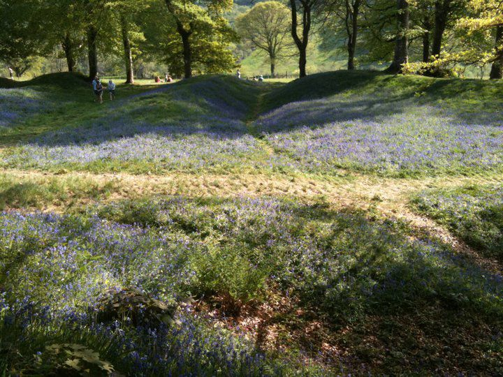 bluebells in april 2011 at Iron Age hill fort in Devon, UK.